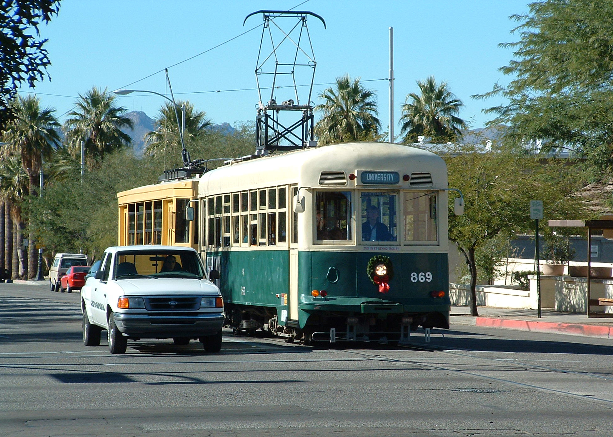 Two vintage streetcars on Tucson's Old Pueblo Trolley line: Ex-Kyoto, Japan, car 869 (built in 1953) and ex-Brussels, Belgium, car 1511 (built in 1936). Car 869 has a Christmas wreath around its headlight.